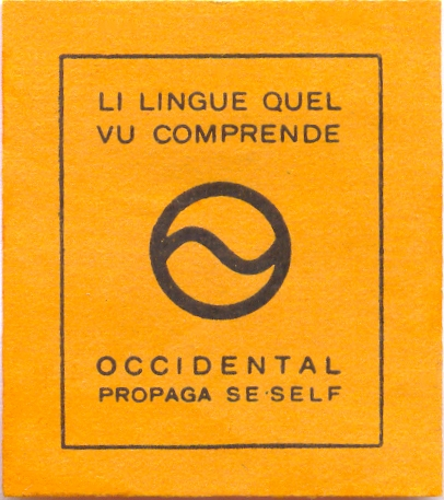 Werbemarke für die Plansprache Occidental (Interlingue). "Die Sprache, die du verstehst - Occidental spricht für sich selbst"